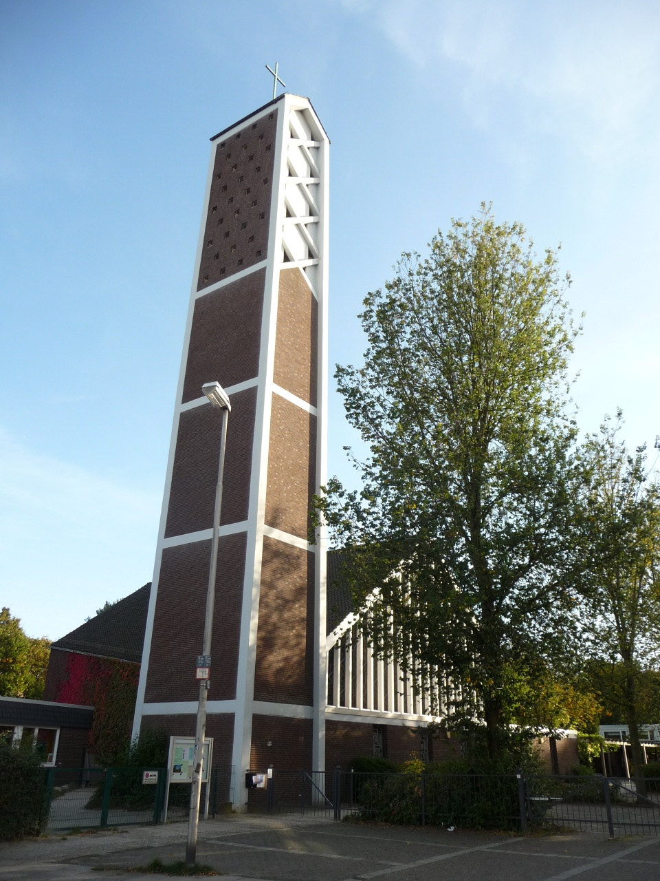 Philippus-Church in Bremen-Groepelingen